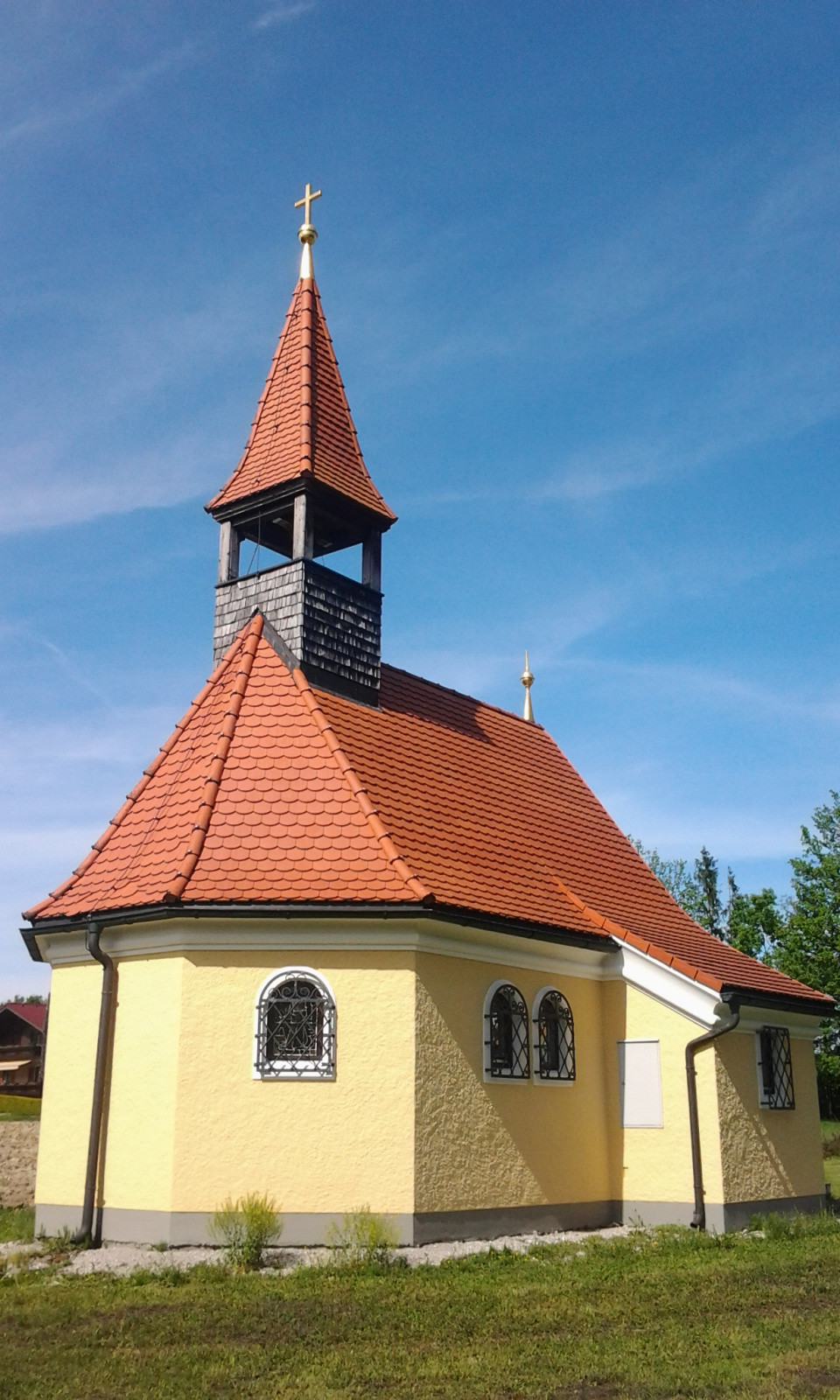 St. Mary Chapel, Zehmemoos, municipality of Bürmoos, state of Salzburg, Austria